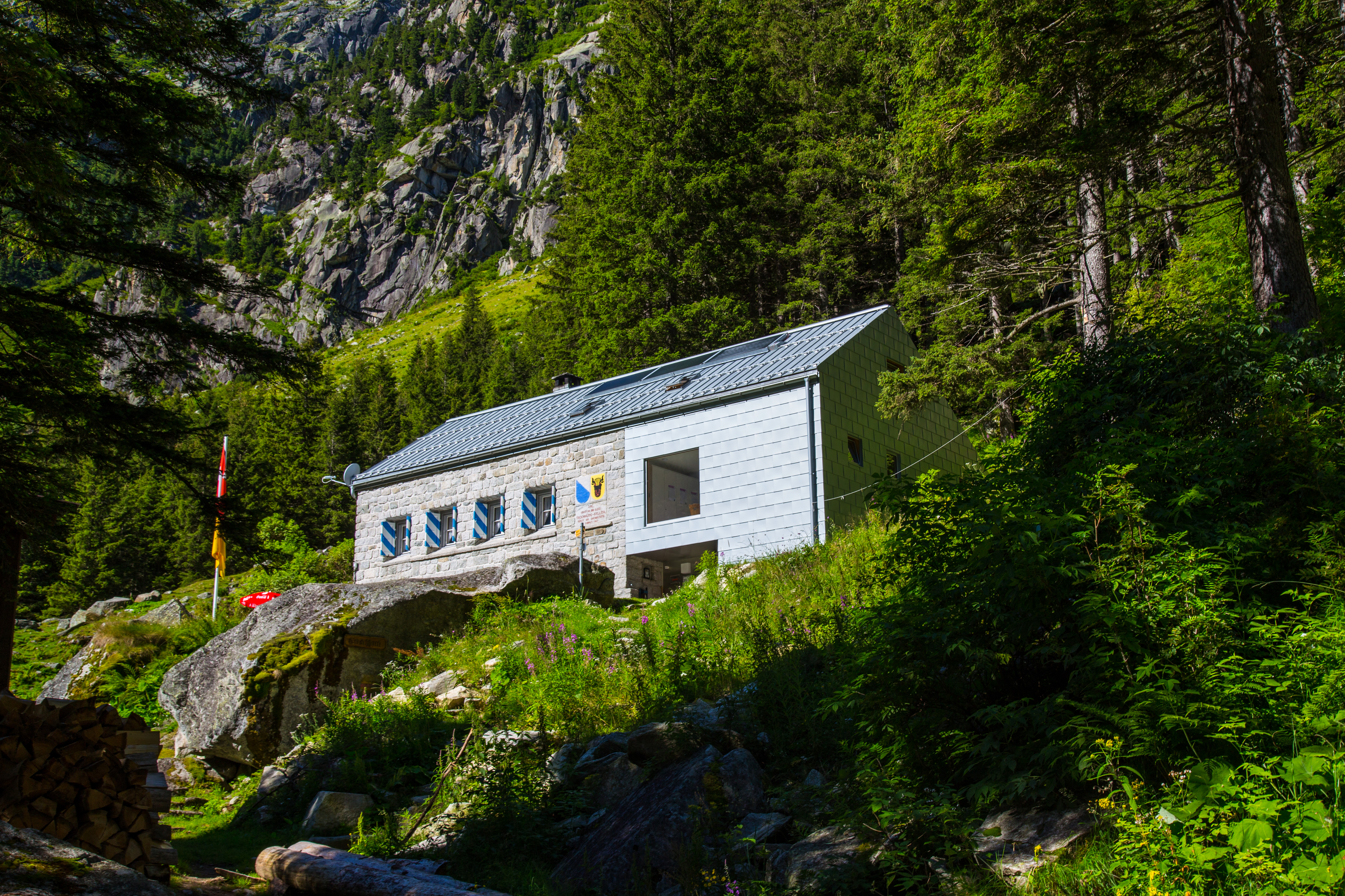 Treschhütte in Fellital (Felli Valley), Canton of Uri, Switzerland